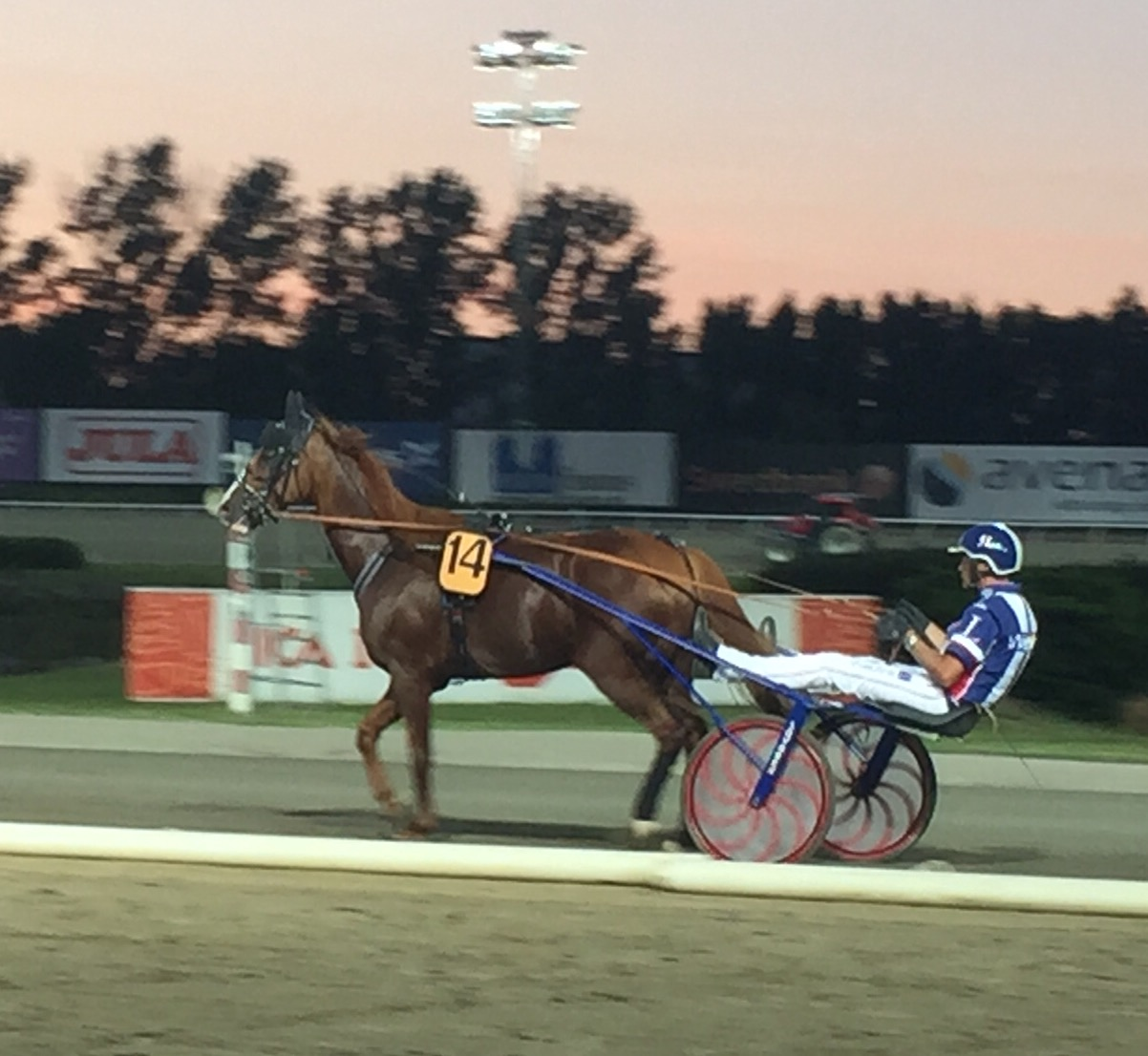 Alfas da Vinci and Joakim Lövgren at Jägersro 2016.